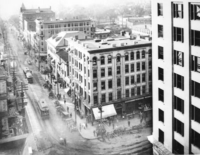 Intersection of Fayetteville and Martin Streets in Raleigh, North Carolina.